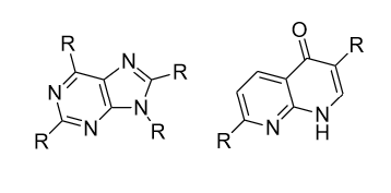 These are two examples of core structures of bicyclic non xanthine based A2A adenosine antagonists. There can be different numbers of N in the core cycles and R can be, for example: S, O, NR, NH2 and more.